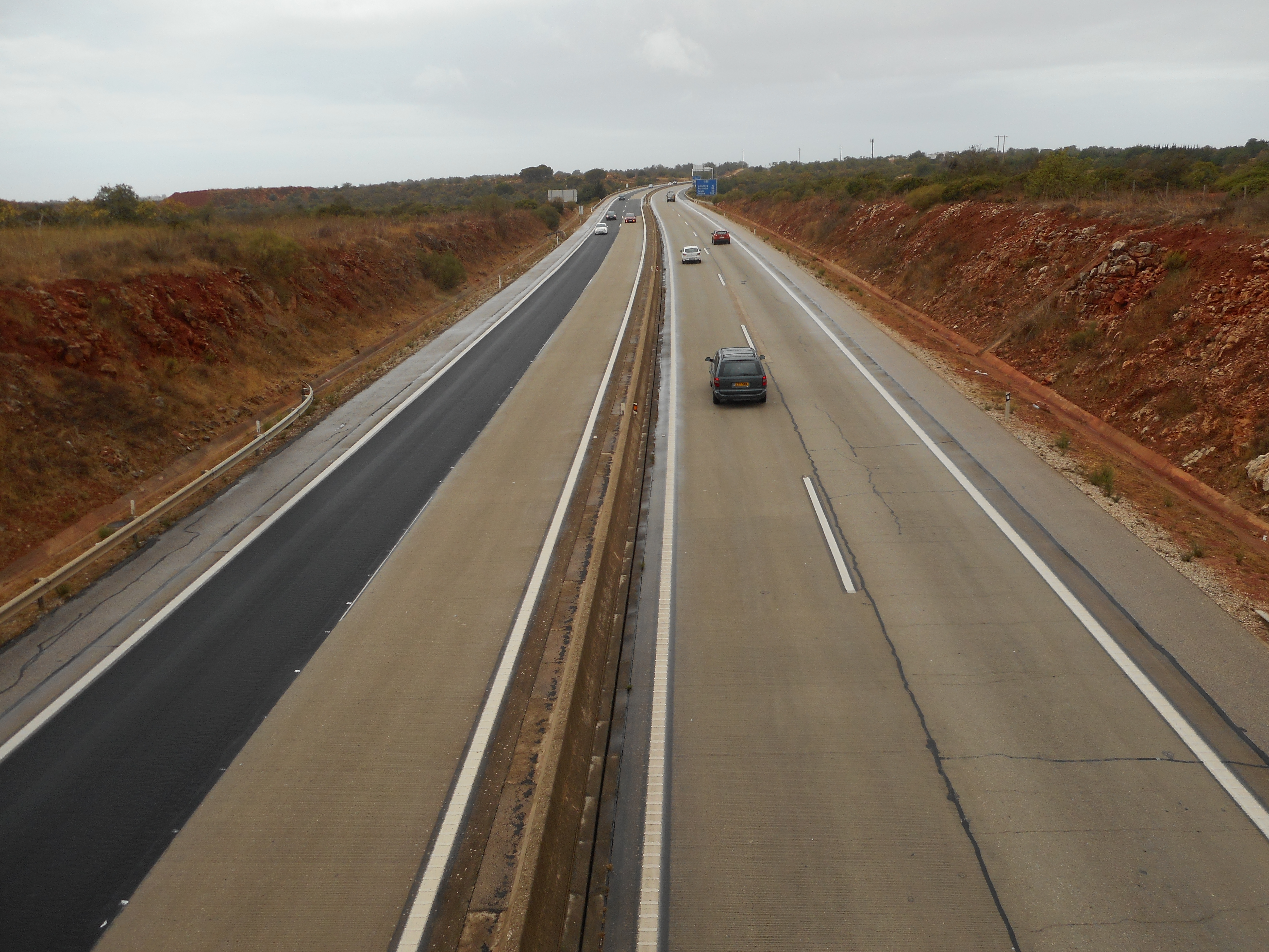 Looking westward along the A22 toll motorway near Paderne, Albufeira, Algarve, Portugal. Junction 10 leads on to the A2 motorway to Lisbon and is classed as junction 15 of the A2.